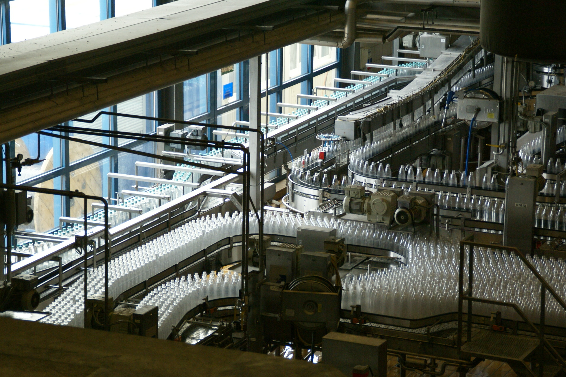 Bottle filling plant of mineral water vendor Gerolsteiner Brunnen GmbH in Gerolstein, Germany